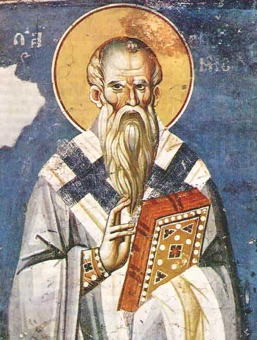 Clement of Ohrid